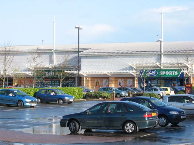 Cardiff Bay Retail Park